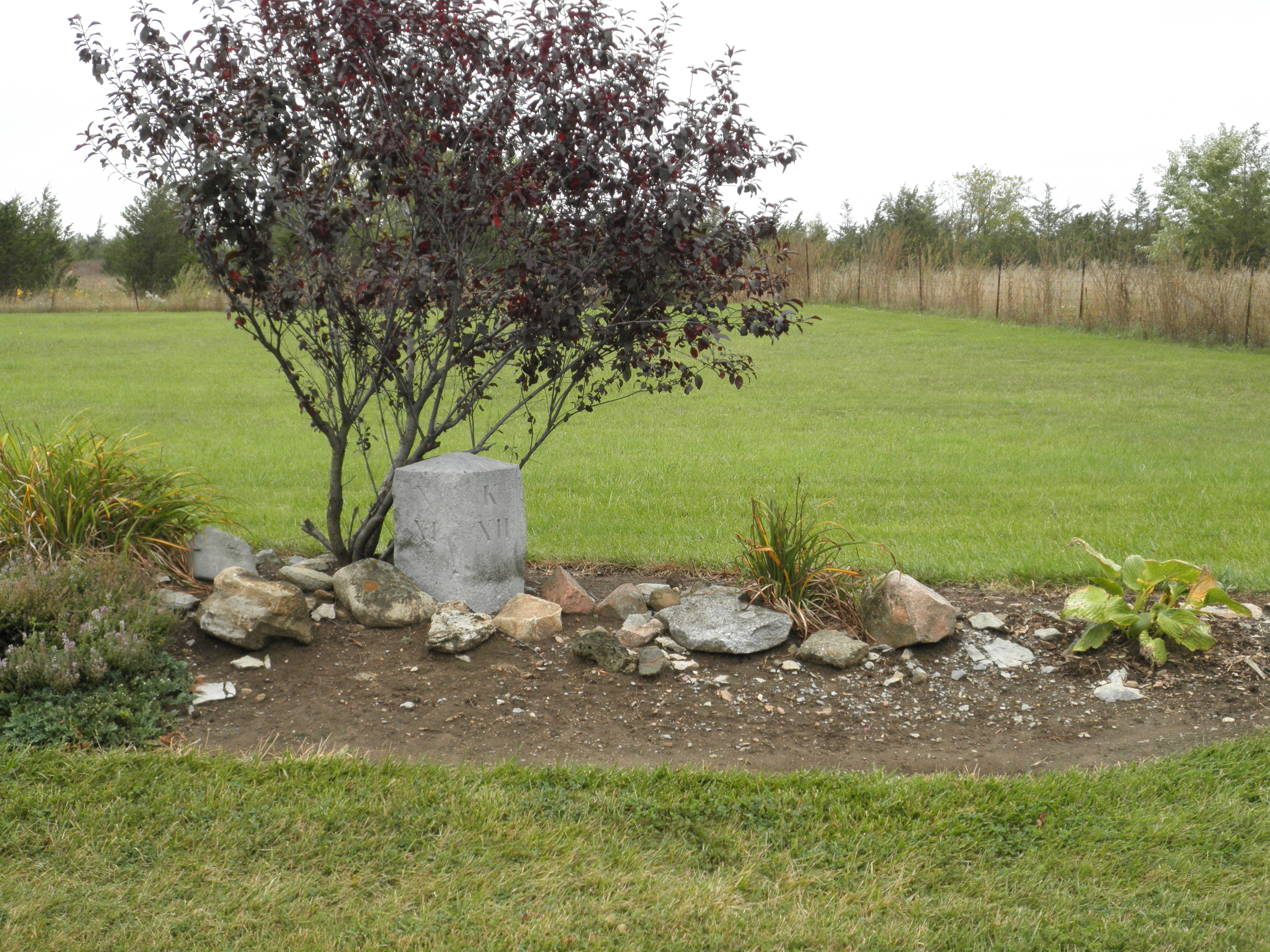 An 1839 stagecoach highway milestone in a farm field just west of Odessa on the north side of Ontario Highway 2 (which is Main Street in the village). This location is an approximate midpoint between Napanee (11 miles west) and the then-rural edge of Kingston (Princess & Bath Rd, 12 miles east). Kingston downtown was two miles further (to City Hall). These markers were part of an 1839 stagecoach road; a half-dozen or fewer still stand on the north side of old Ontario Highway 2 in mostly rural areas such as Odessa. Originally a muddy horse path, the 1817 York Road, this was converted to toll road and macadamised (as a form of gravel road) in the late 1830s. The stones are engraved on two of the four faces; facing southwest 'N' and the number of miles to Napanee, facing southeast 'K' and the miles to Kingston. These predate the Ontario numbered highway system; there were no motorcars, no 18-wheel lorries, no kilometres and no 401 in this era. The distances are in miles and are Roman numerals. A sign at 2 and Collins Bay Road (Kingston 5, Napanee 18) indicates these as: "Original milestone Kingston-Napanee toll road First Macadamized highway in Canada Commenced 1837 Completed 1839"